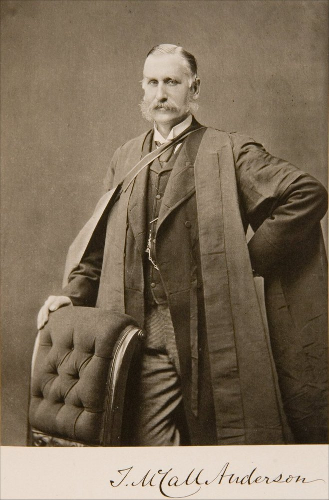 Sir Thomas McCall Anderson (1836-1908) was the University's first Professor of Clinical Medicine, 1874 to 1900; Regius Professor of Practice of Medicine, 1900 to 1908, and Dean of the Faculty of Medicine from 1900 to 1904.